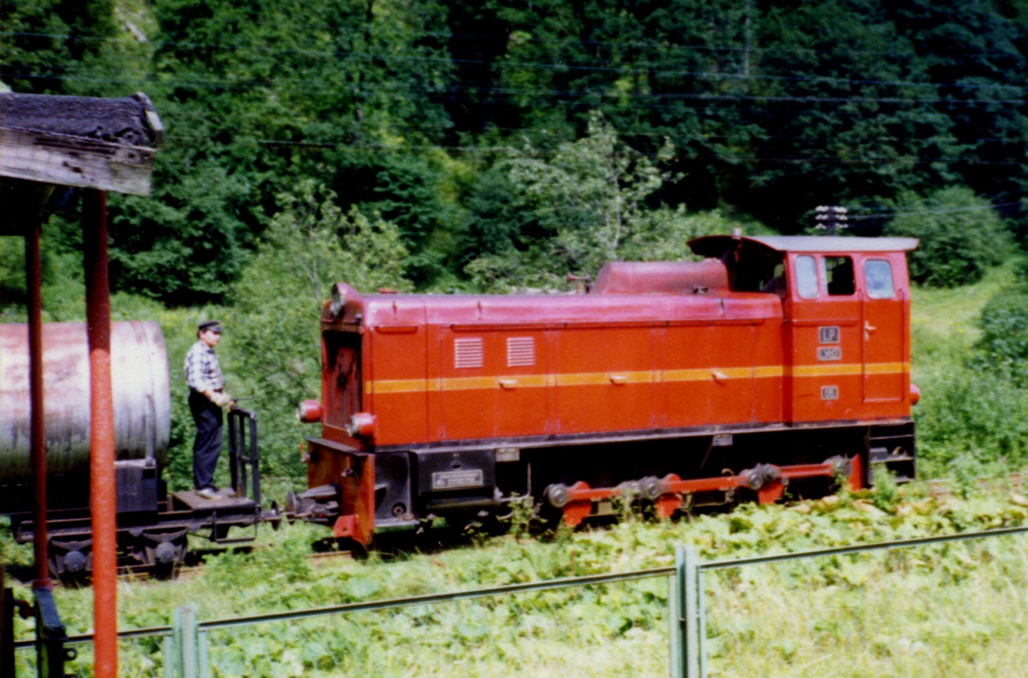 Locomotive LP-Lyd2-05 in Majdan, Bieszczady mountains, Poland.